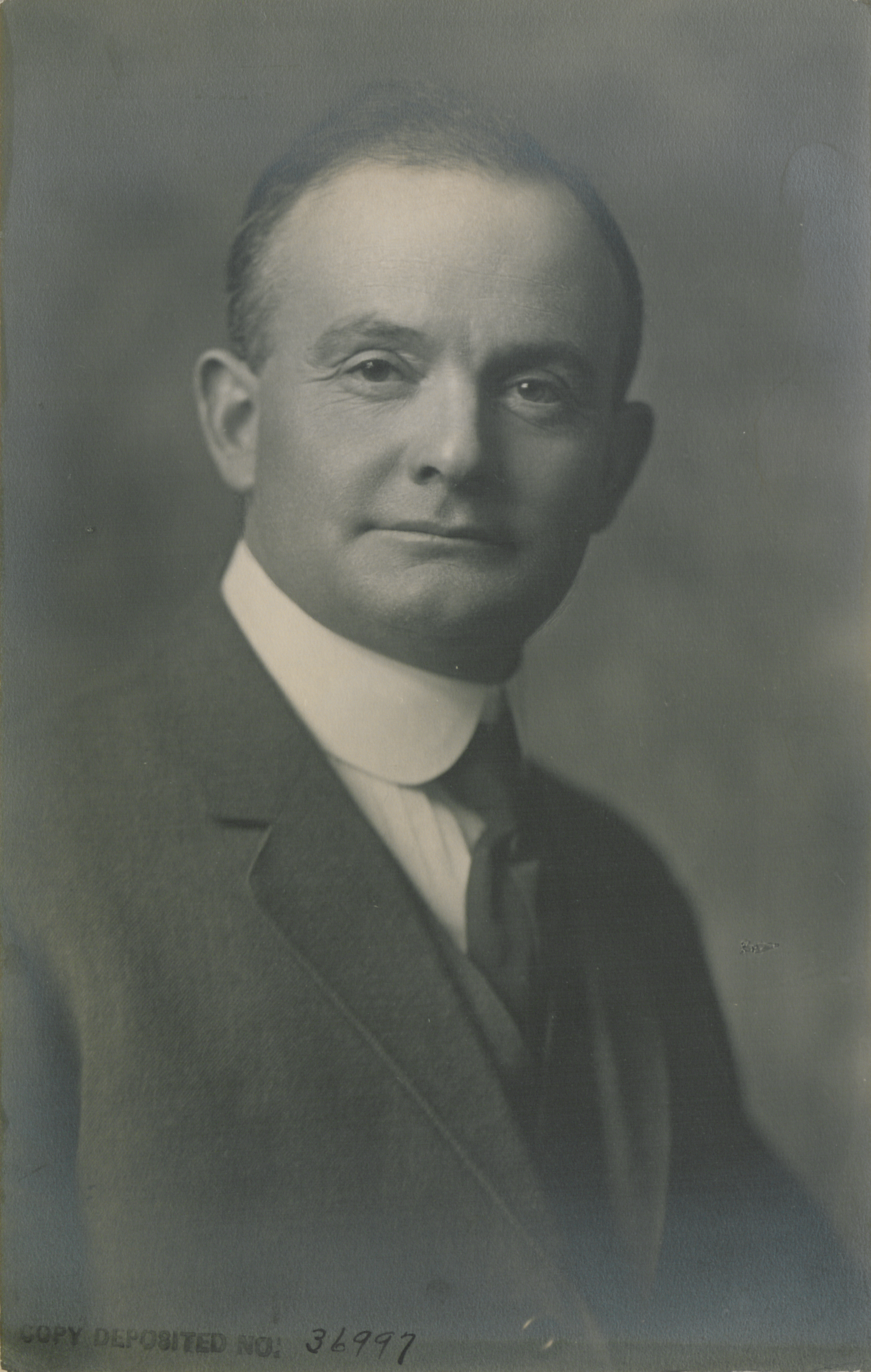 Original caption: “E.C. Drury. Photo B.”